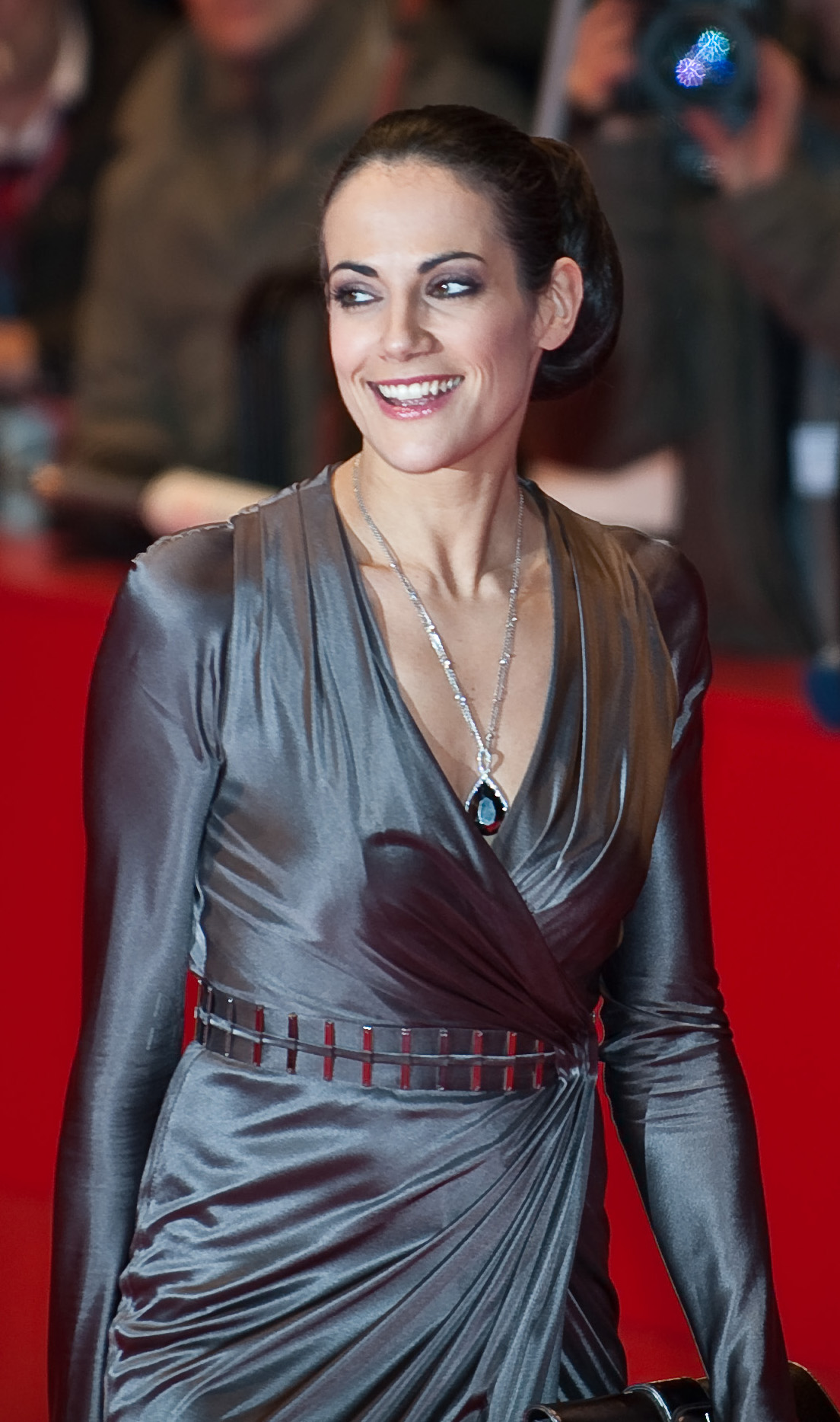 German actress Bettina Zimmermann arriving at the opening of the 60th Berlin International Film Festival